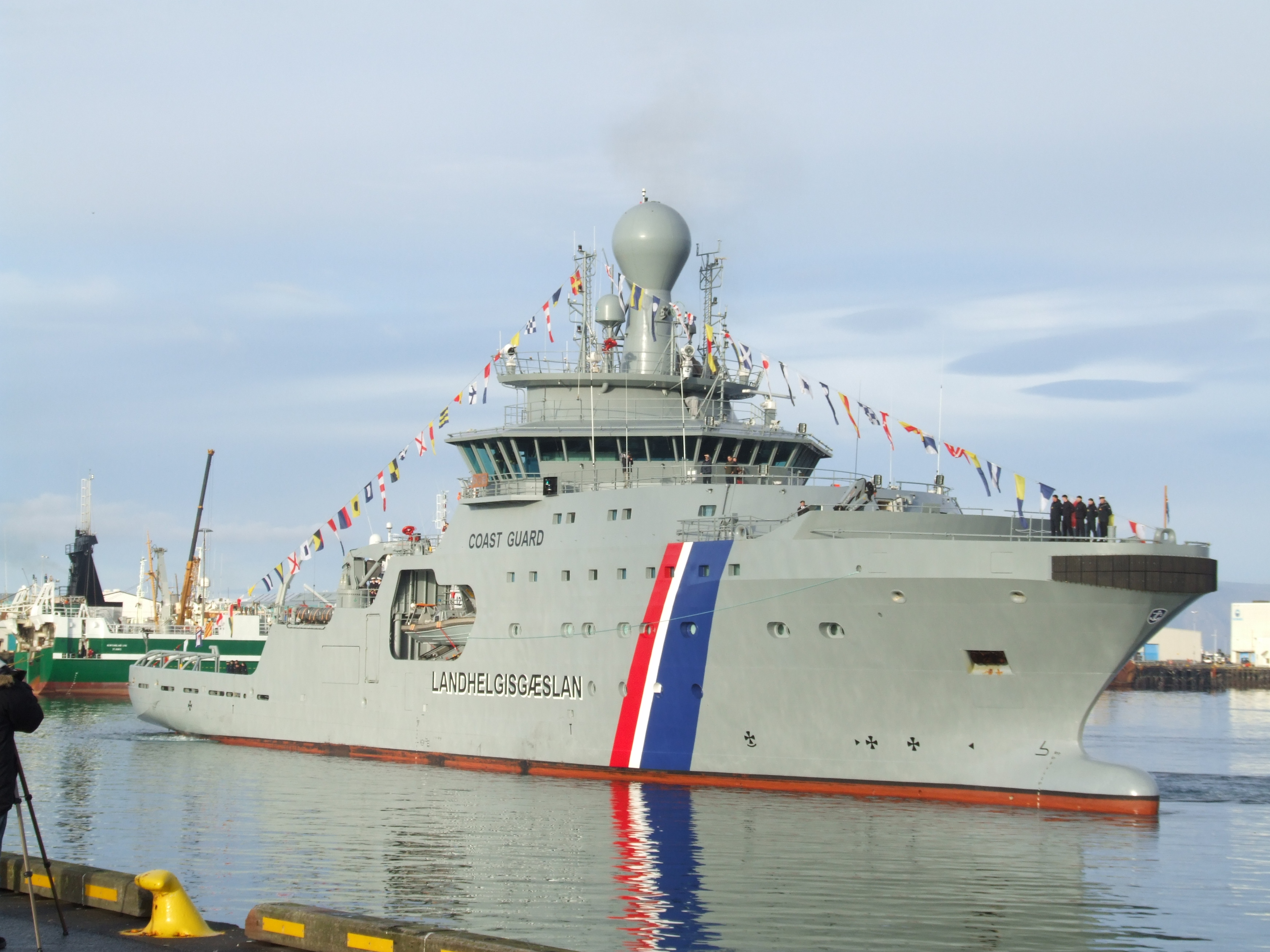 2 Arrival of Thor - Icelandic Coast Guard 2011-10-27 Reykjavik